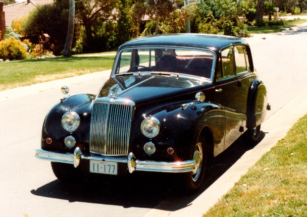 A 1956 Mk 1 Sapphire (Chassis C342943)